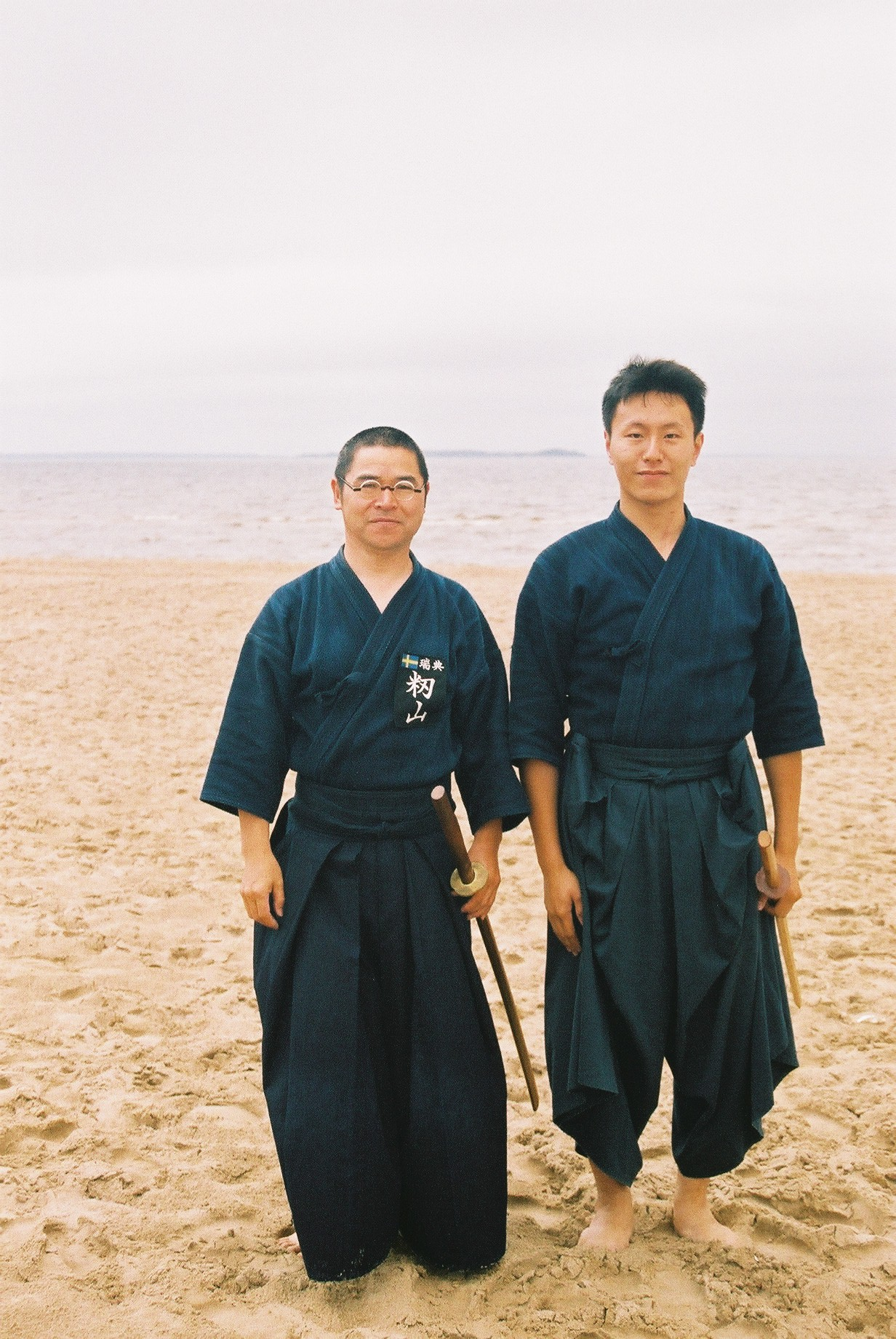 Takao Momiyama-sensei and Onishi-san in Pori Jazz kendocamp summer 2004